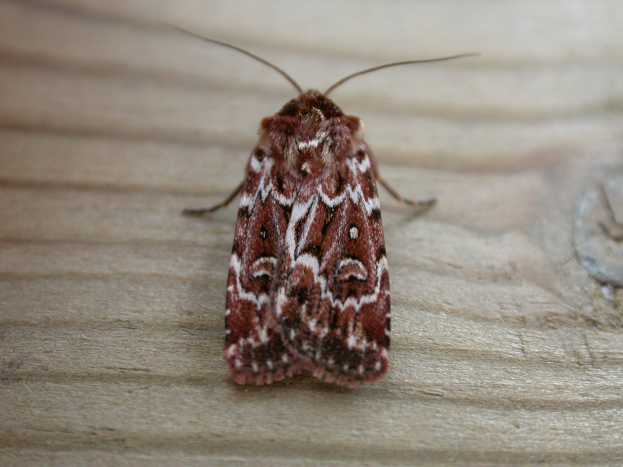 Lycophotia porphyrea, Gastes, Landes, SW France, 30 June/1 July 2003